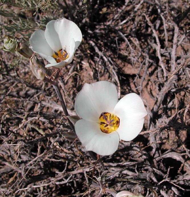 Calochortus bruneaunis. US Forest Service photo, no copyright.